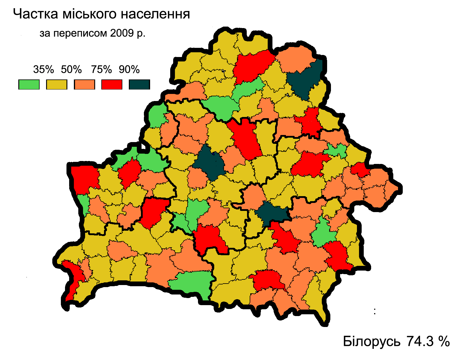 Urbanization in Belarus according to 2009 census